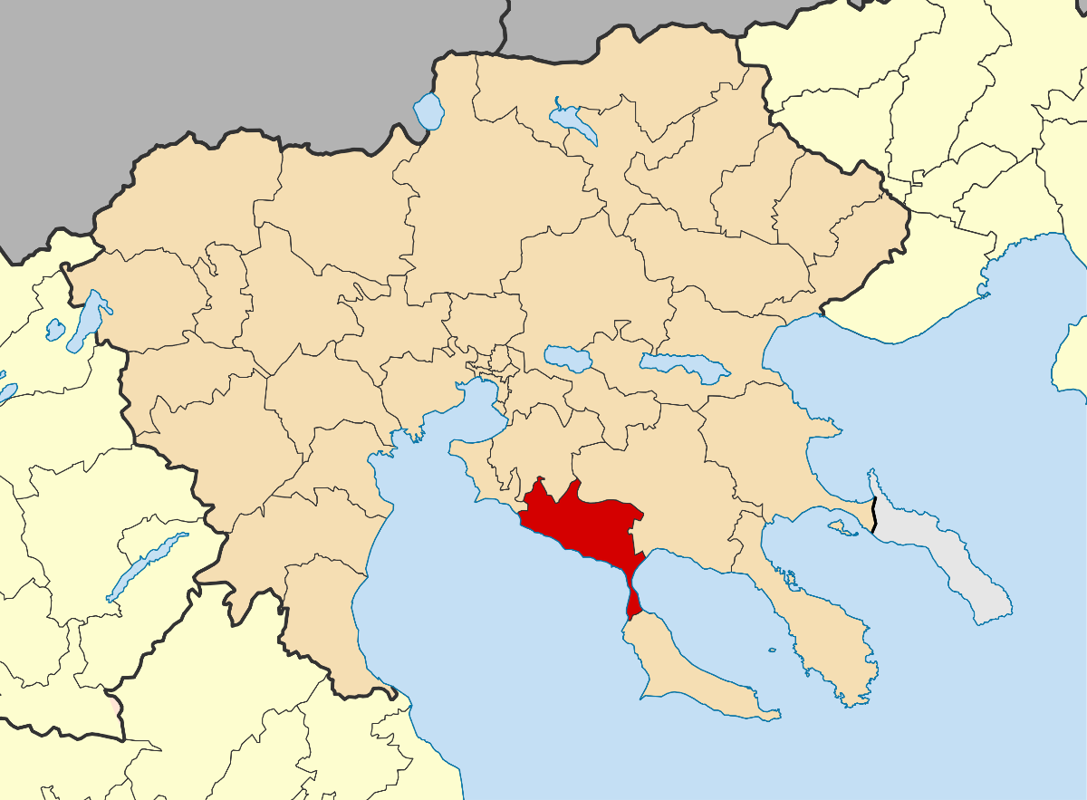 Locator map for Kallikratia-Moudania municipality in Greek region Central Macedonia (2011)